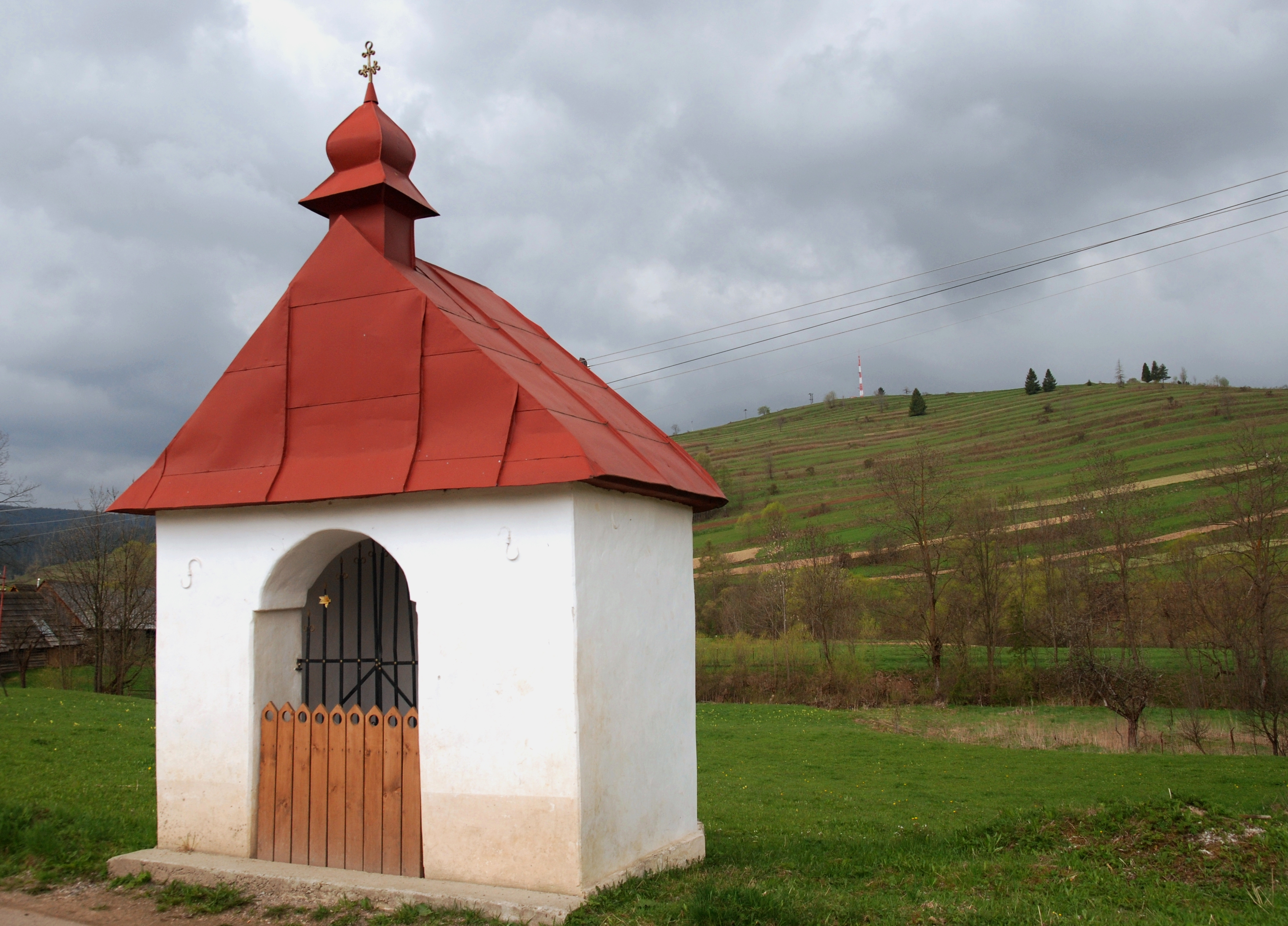 Osturňa, Slovakia